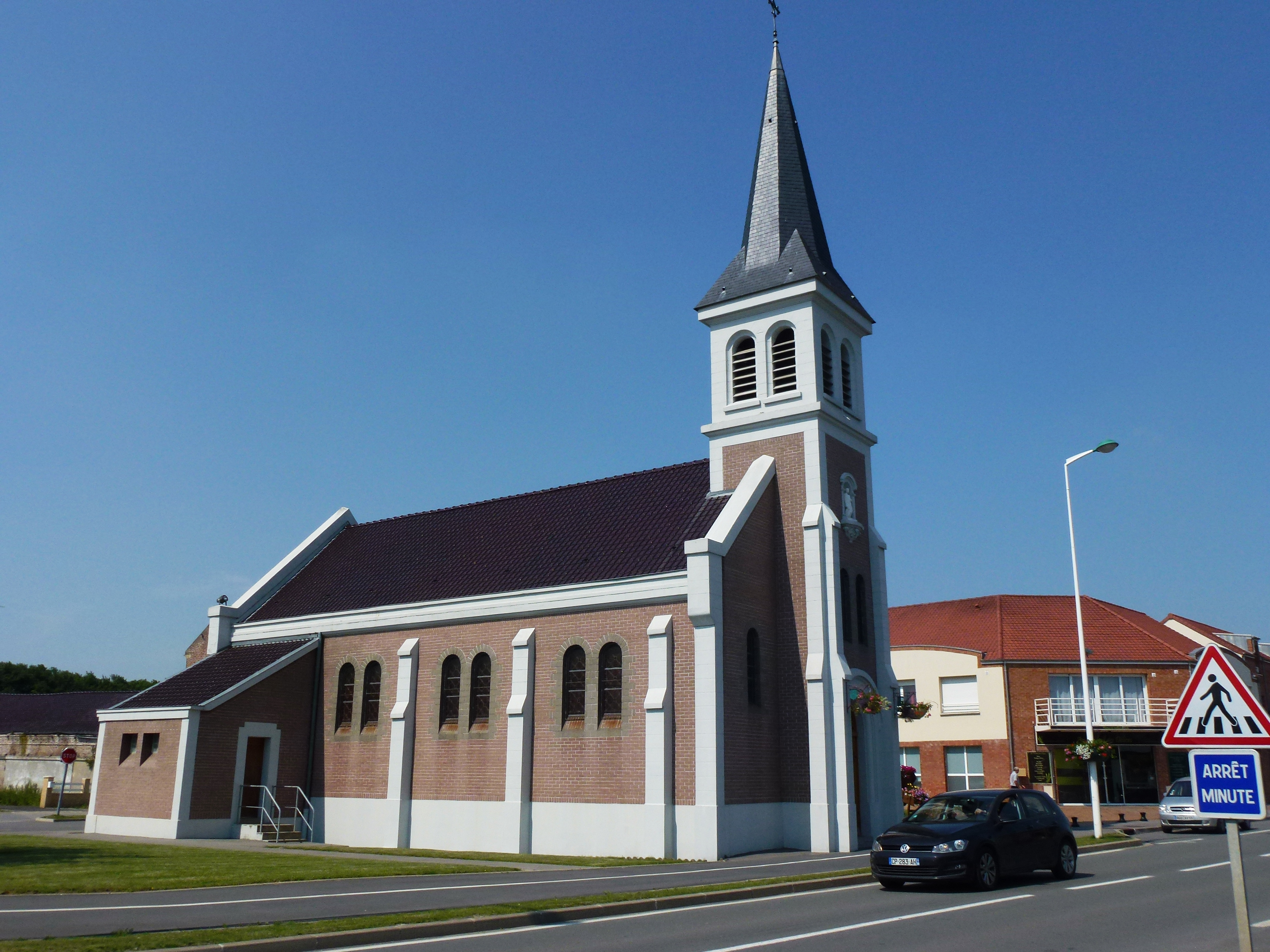 Rouvignies (Nord) église